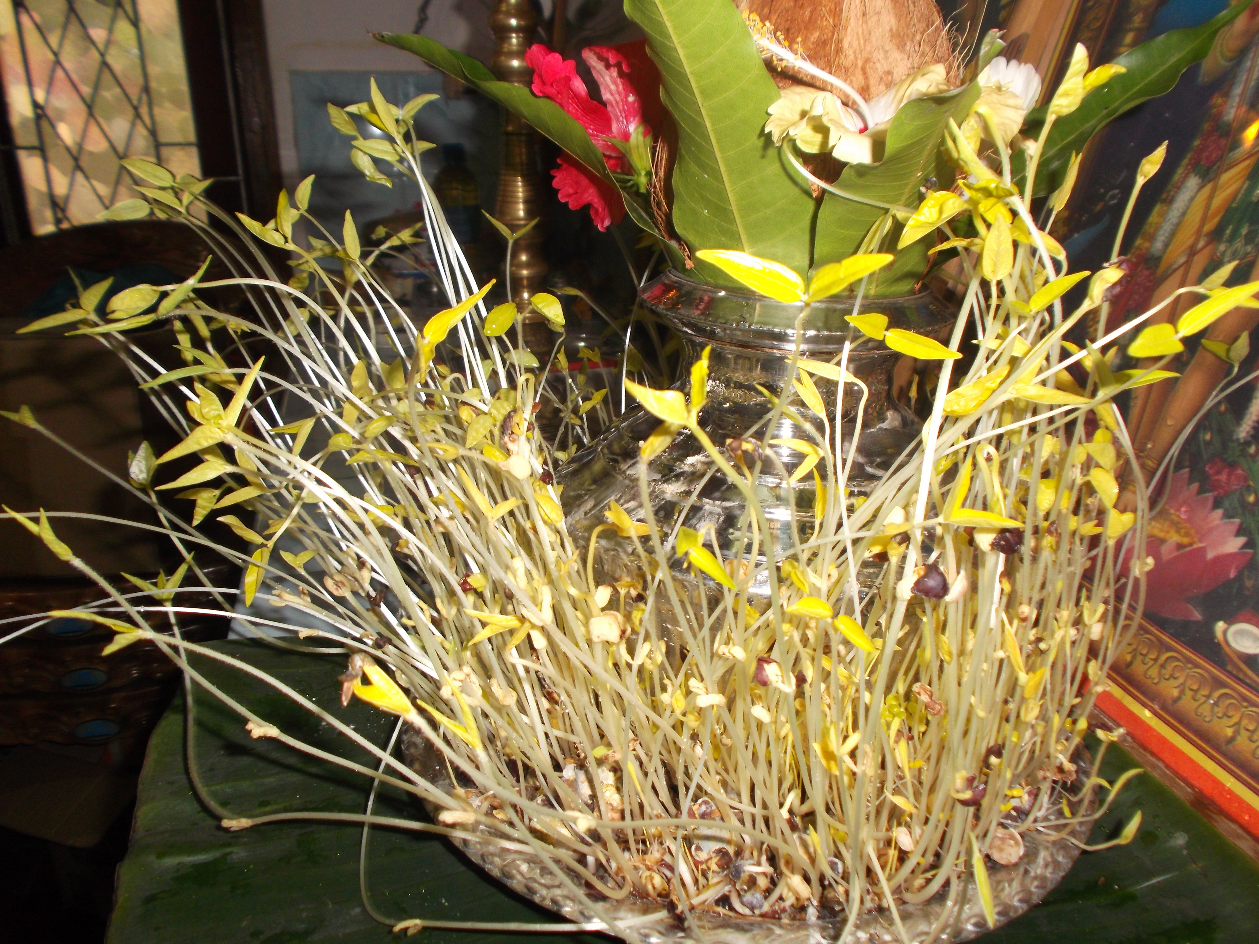 Etiolation of grains germinated கும்ப கலசத்தில் முளைக்க விடப்பட்ட நவதானியங்கள் வைநிறமாதலைக் காட்டுதல்